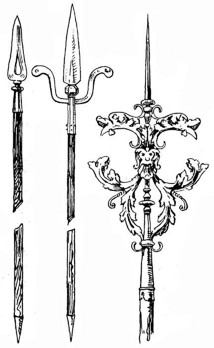 Type of pole weapons, illustration from a book "Handbuch der Waffenkunde" Das Waffenwesen in seiner historischen Entwicklung vom Beginn des Mittelalters bis zum Ende des 18 Jahrhunderts" by Wendelin Boeheim, Leipzig, 1890